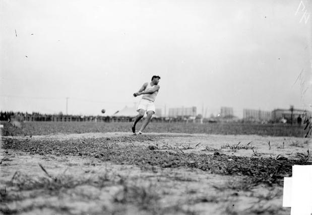 American athlete Ralph Rose during the hammer throw competition at the 1904 Olympic Games.